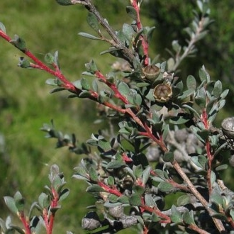 Foliage and fruit of Leptospermum myrtifolium